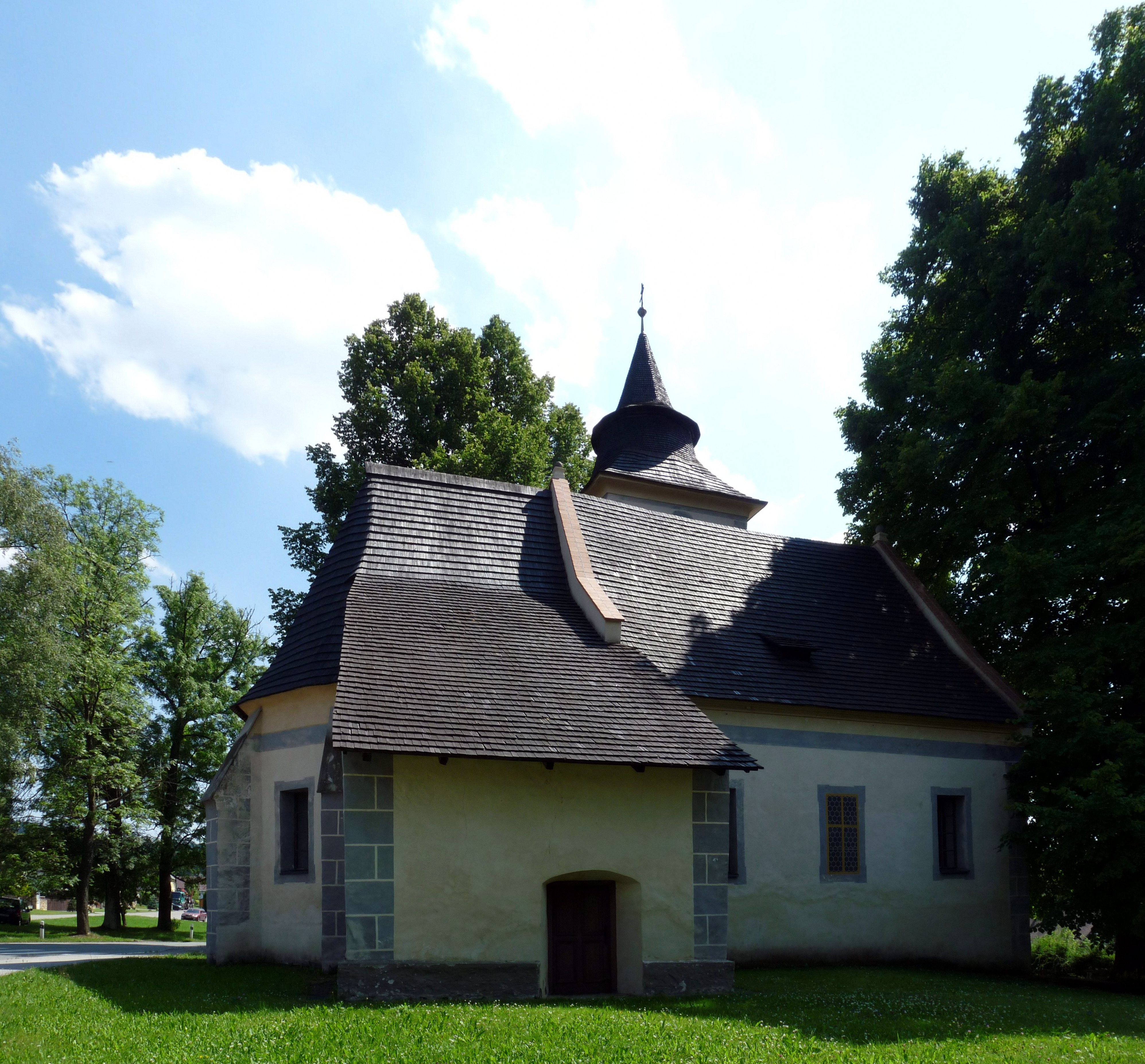 Church of Saint Anne in the village of Libínské Sedlo, Prachatice District, South Bohemian Region, Czech Republic.